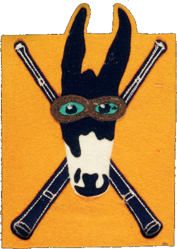 110th Observation Squadron - Emblem